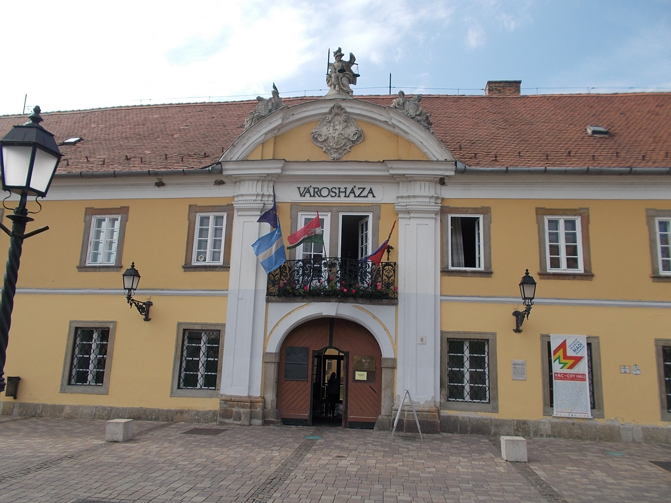 The Town Hall is a historic and listed building. According to a map of 1680, there used to be a Turkish bath at this place. However, the cadastral register of 1718 shows the town hall at the same place. It was Bishop Mihály Frigyes Althann who started to have the building constructed in 1735, and it was finished only for the honour of Theresa Maria's visit in 1764. TThe façade decorated with the statue of Justica, the goddess of Justice. Both on its right and left side a lying figure of a woman, the Hungarian and Migazzi coat of arms ornament the building. - 11 Március 15. Square, Vác, Pest County, Hungary